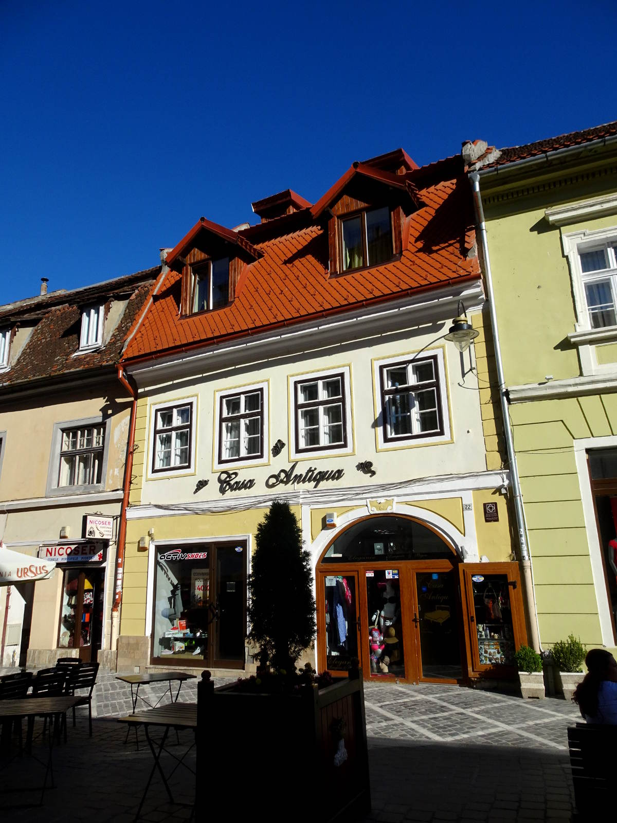 House on Republicii street, Brașov